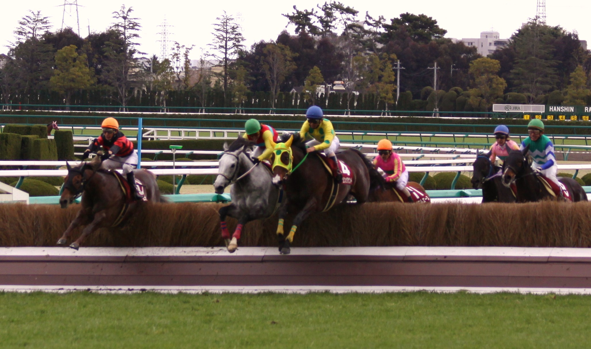 Steeplechasing in Japan